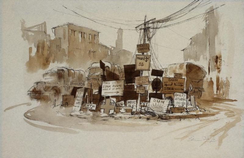 Traffic Signals - Eighth Army Area, Italy 1944 image: A telegraph pole in the centre of a roundabout in an Italian town covered in British and Commonwealth military traffic signs pointing in all directions, including one at the top of the pole which reads 'Chaos Corner'. The signs spill out onto the road. There are military trucks on either side of the pole, driving around the roundabout.